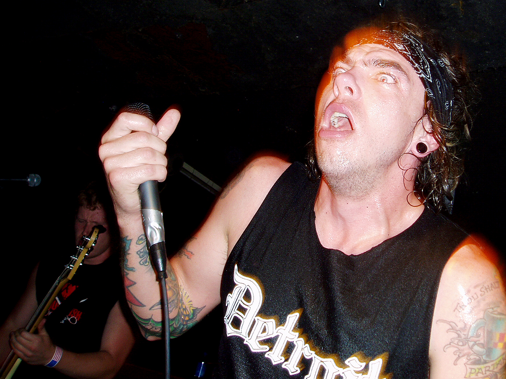 The Suicide Machines live at The Starlight in Fort Collins, Colorado, 2005.